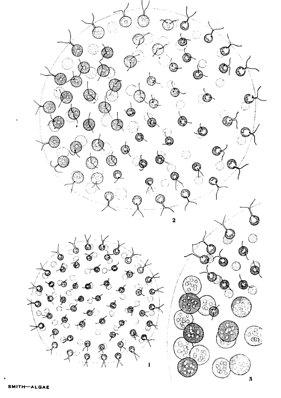 Pleodorina californica, from: Smith, GM. Phytoplankton of Inland Lakes of Wisconsin, Part I, Wisconsin Geological and Natural History Survey, Madison, WI. plate 57, p. 97. (1920)